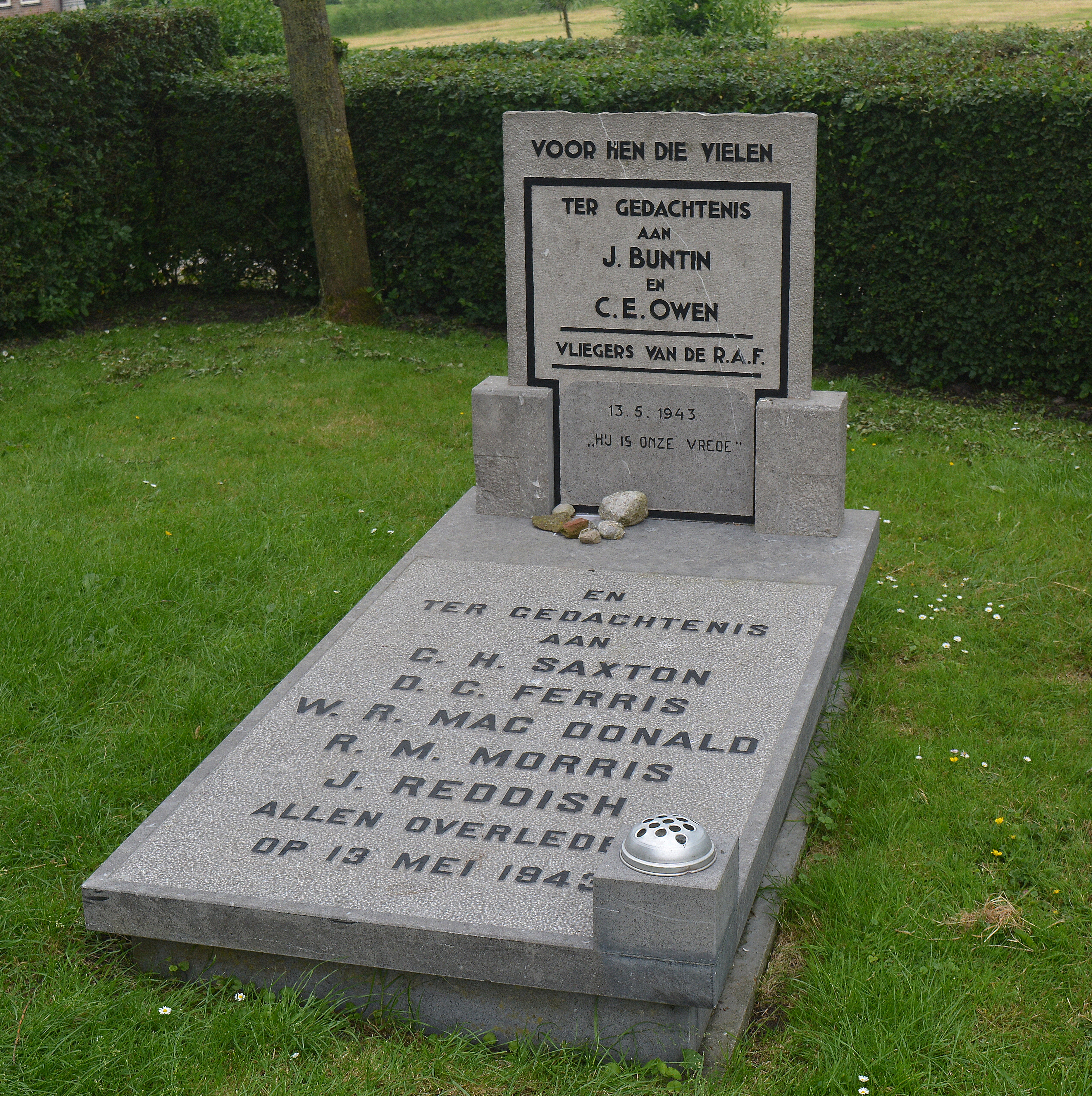 Hieslum, war memorial for the crew of the Lancaster ED589 (shot down by a german Messerschmitt 13.05.1943)